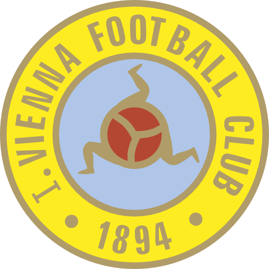 Historical logo of First Vienna FC 1894.